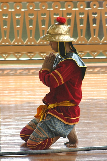 Unifromed person kneelingIMG_4694